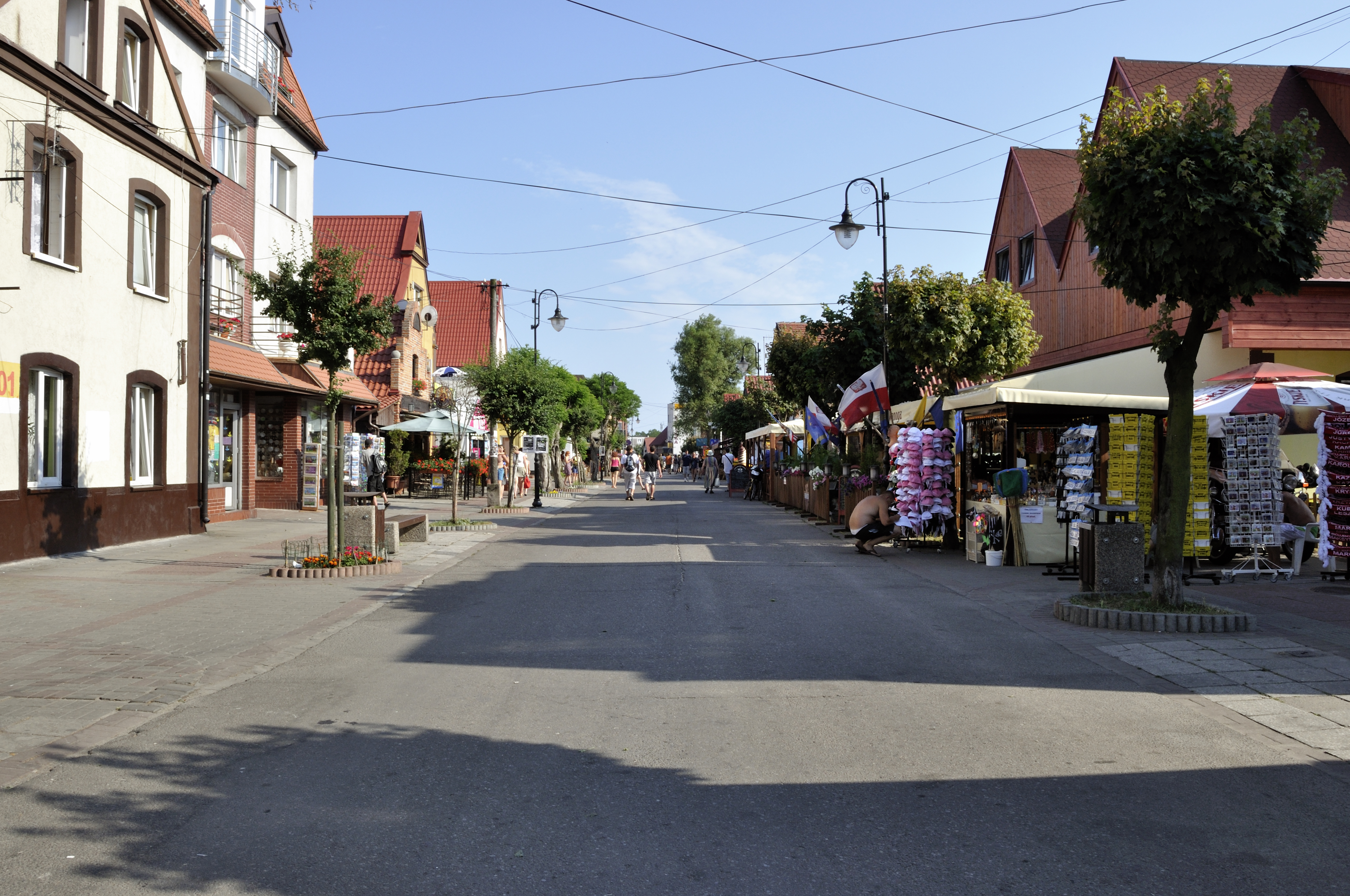 Picture taken in Hel after Wikimania 2010 conference.